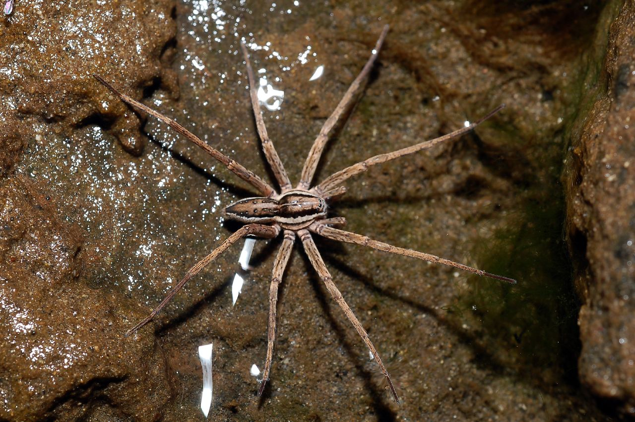 New Zealand Nursery Web Spider Dolomedes minor, Adult male, sitting on water waiting for prey.